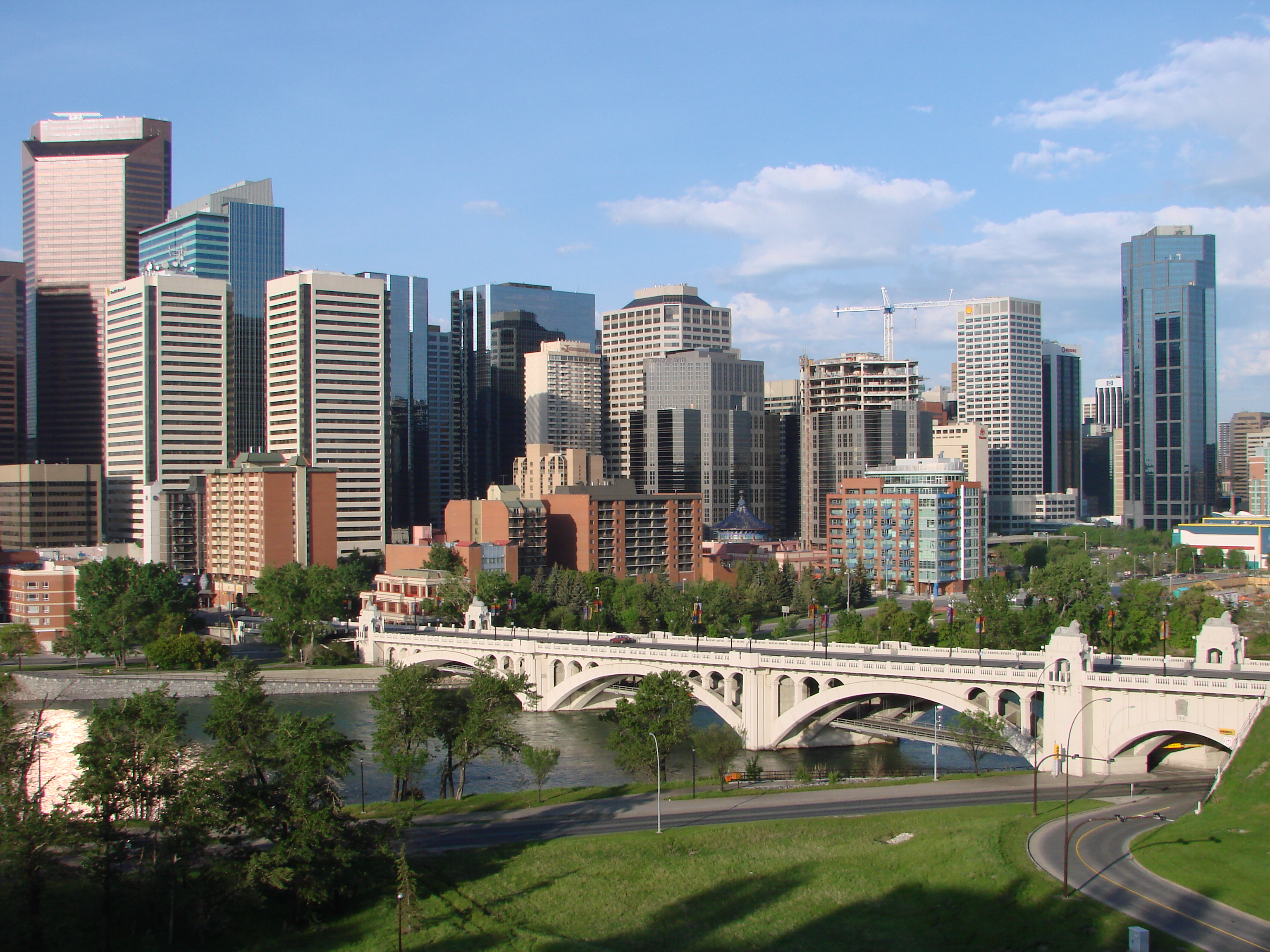 A view of the Calgary skyline in Alberta, Canada. Free Use